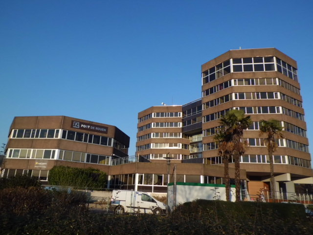 Harbour master's office (Rouen, Normandy)